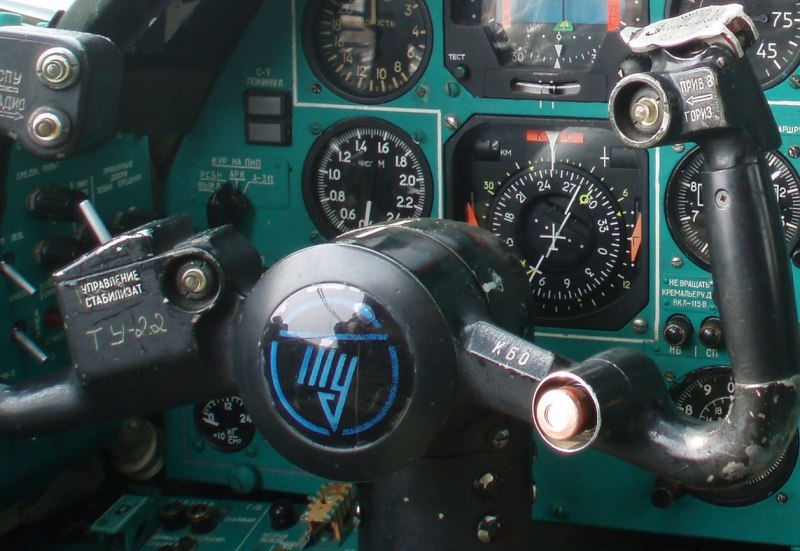 Steering wheel of Tu-22M3 plane